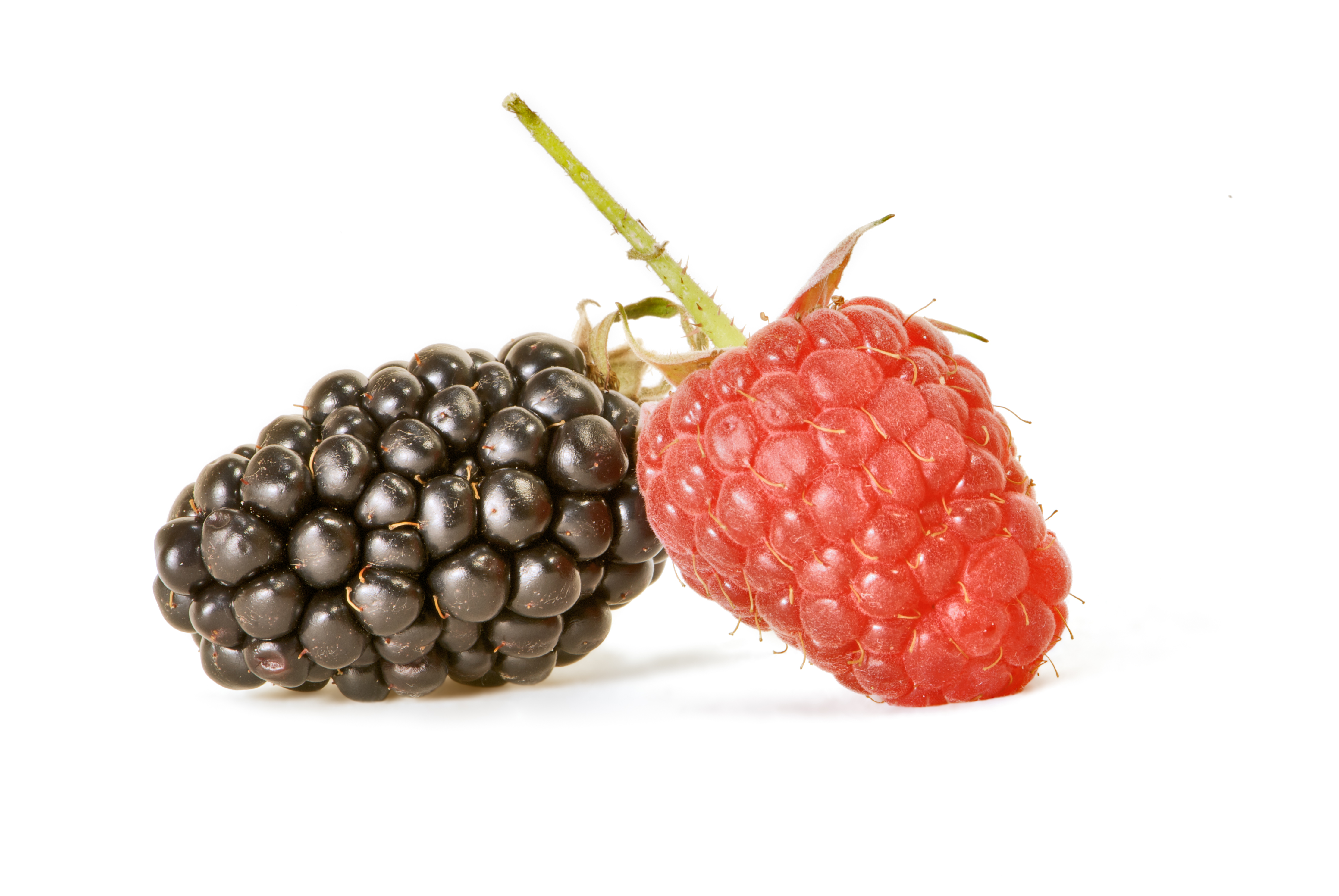 Two berries of the Rubus genus. The red one to the right is Rubus idaeus, which is commonly known as raspberry. Its length is approximately 26 mm (only the fruit part) and it measures about 18 mm at its widest diameter. The black berry to the left is Rubus fruticosus – the common blackberry – with a length of 33 mm and a maximum diameter of 17 mm. Both berries are food used by Homo sapiens sapiens and are therefore cultivated.